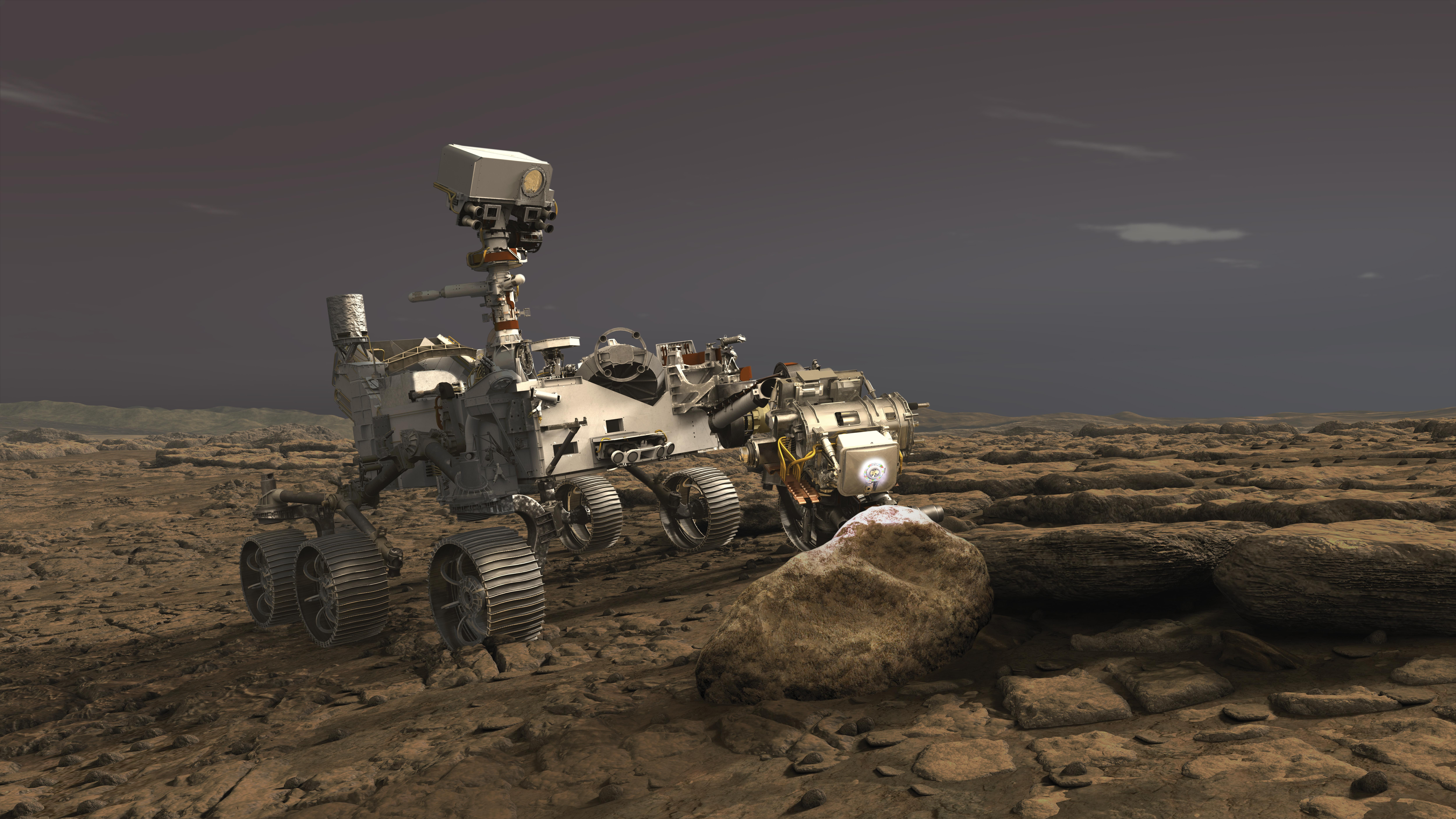 PIA23719: PIXL Takes Aim at Rocks (Illustration) In this illustration, NASA's Perseverance rover uses its Planetary Instrument for X-ray Lithochemistry (PIXL) instrument to analyze a rock on the surface of Mars. PIXL uses a focused X-ray beam to analyze the chemistry of features as small as a grain of sand. The tiny but powerful beam causes rocks to fluoresce, or produce a glow. While the glow is invisible to the human eye, it is detectable by the instrument and varies according to the rock's elemental chemistry. PIXL scan the beam across the surface of the rock to produce a postage-stamp-sized map of the rock's chemistry at the end of an overnight scan. PIXL also has an optical fiducial system (OFS) that includes white "flood lights" — seen on the rock in this artist's concept — that is used together with a pattern of red lasers to illuminate the rock while its camera captures images of the mapped area. The pictures are used for multiple purposes: PIXL analyzes them on board to work out where the target is — in 3D — and move itself into the right position for science collection and the safety of the instrument. The pictures are also downlinked to Earth so scientists can see exactly where each measurement was taken. This allows scientists to tie chemistry accurately to rock texture, which helps them to determine how these features formed and whether they were biological in nature. For more information about the mission, go to